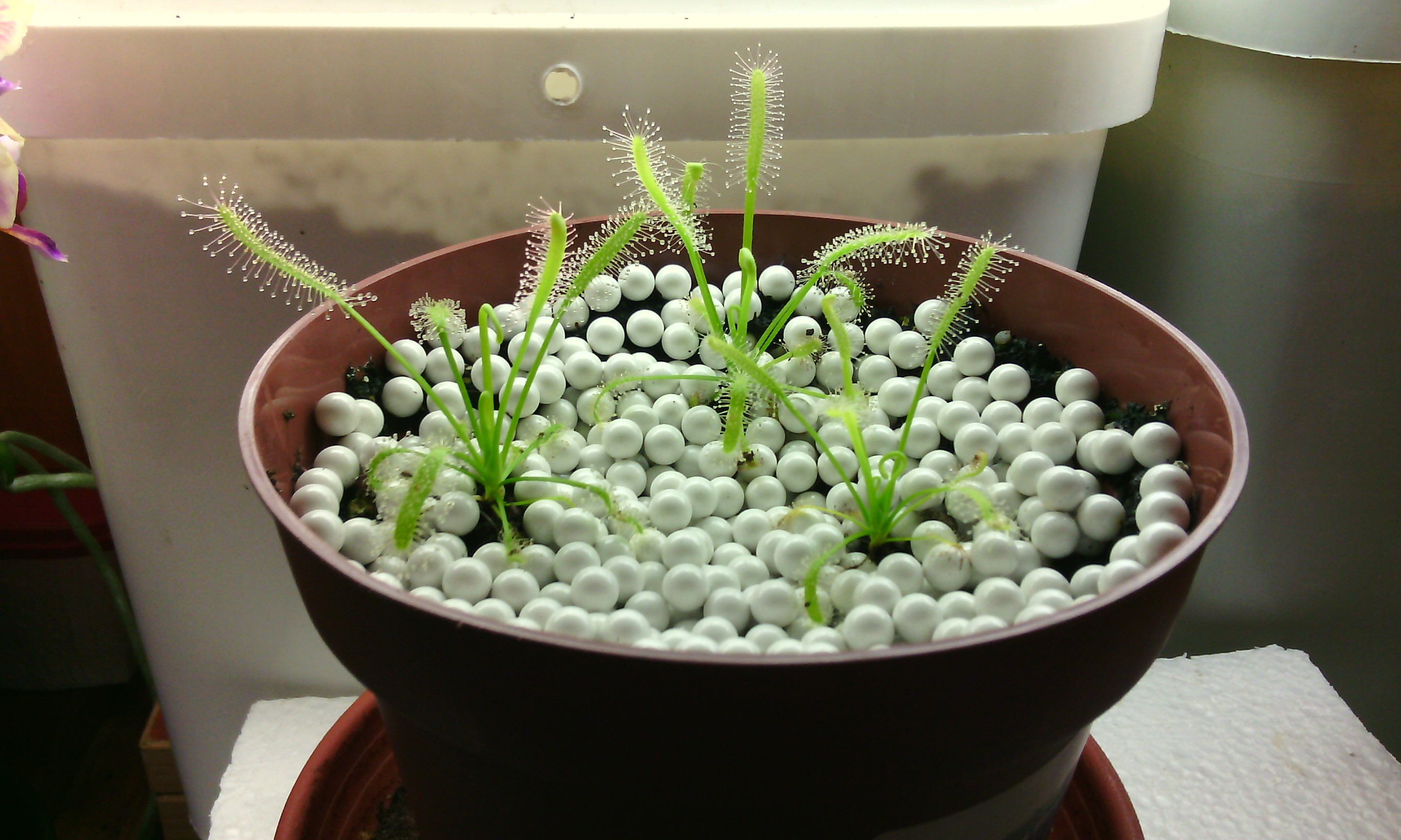 Drosera capensis ,,Alba,, growing in peat moss and airsoft pellets 50 - 50 mix, under artificial lights, as a alternative to sand or perlite aeration